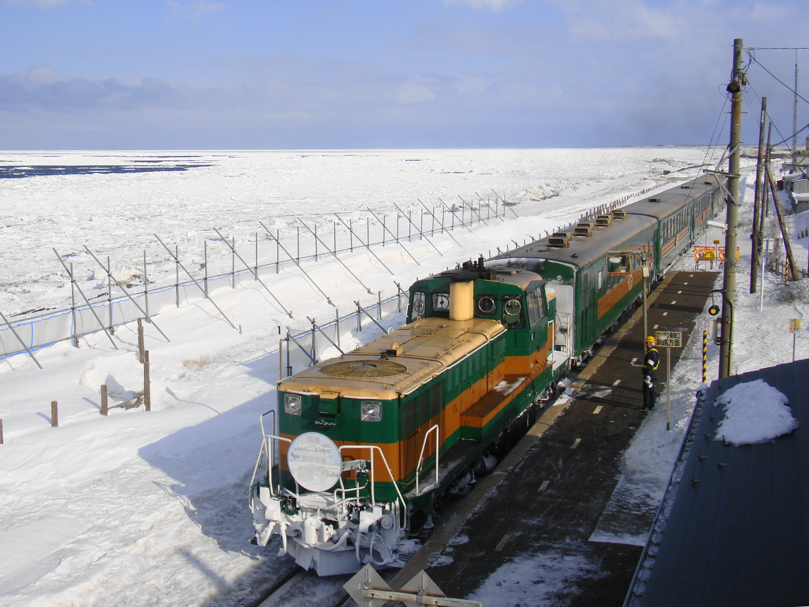 "Ryūhyō Norokko" Drift ice Sightseeing Train